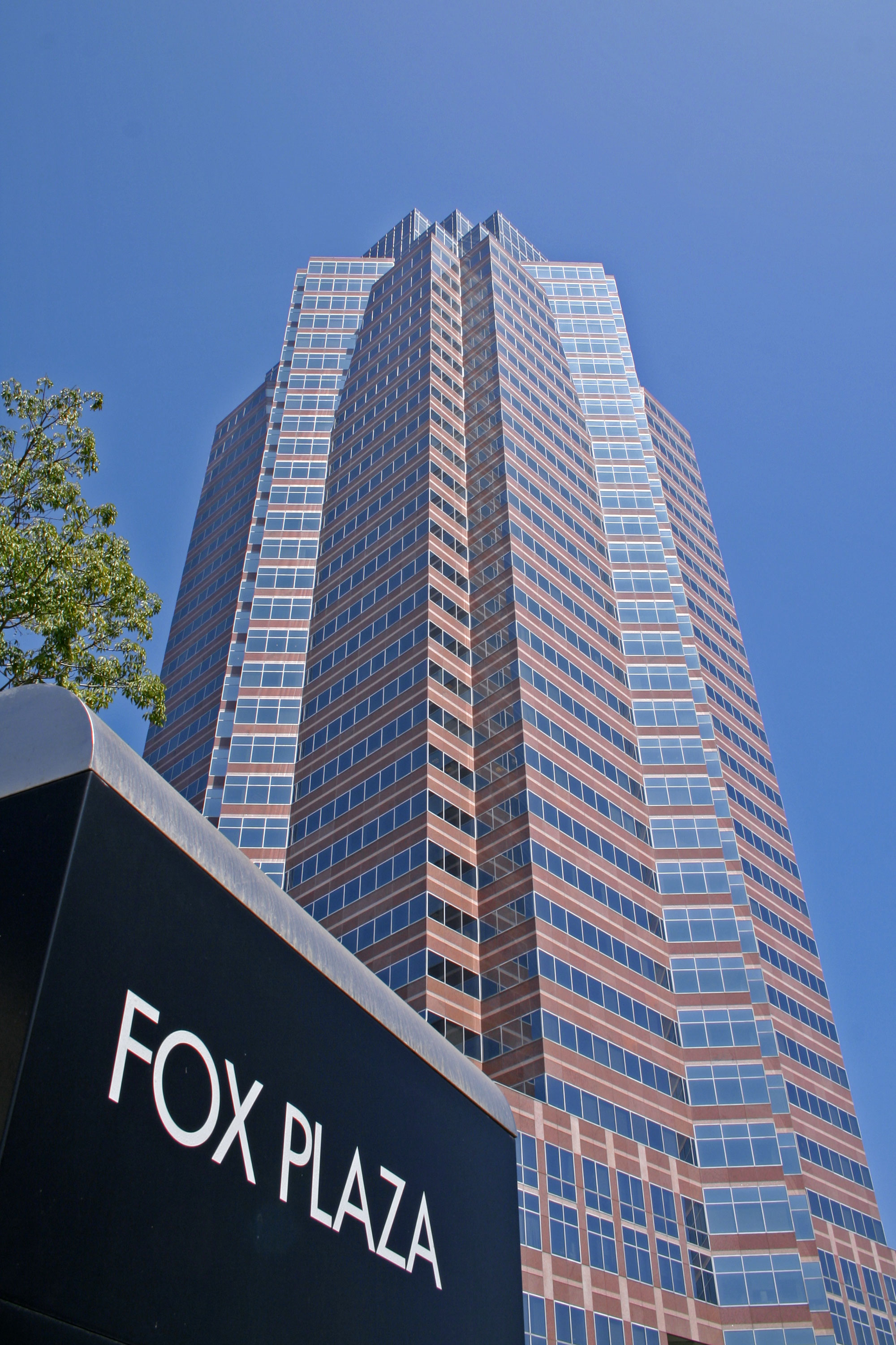 Photo of Fox Plaza in Century City, Los Angeles tom bernard